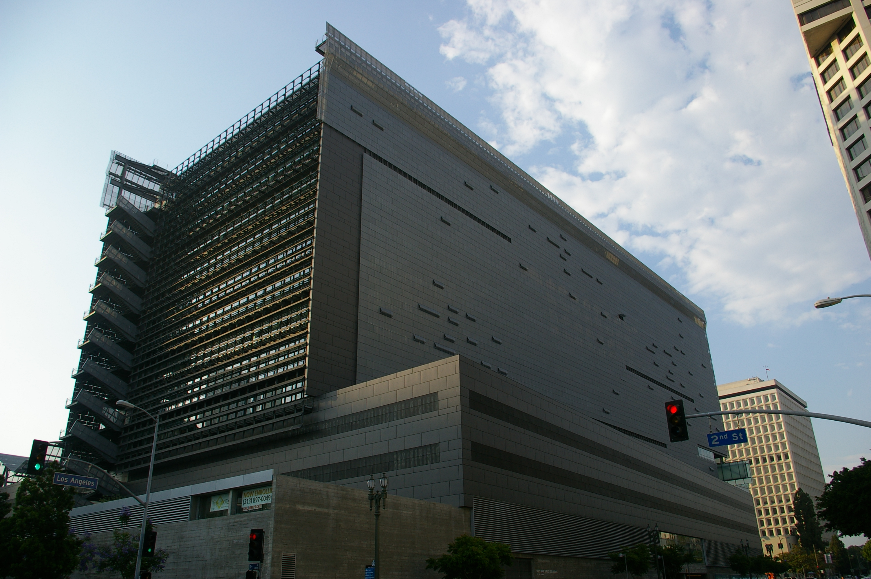 The Southern California Caltrans HQ in downtown Los Angeles.